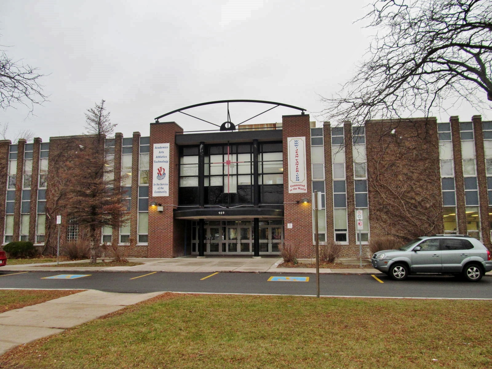 The front view of the (former) Tabor Park Vocational School, owned by TDSB, currently in use by the TCDSB as Jean Vanier Catholic Secondary School in December 2014.